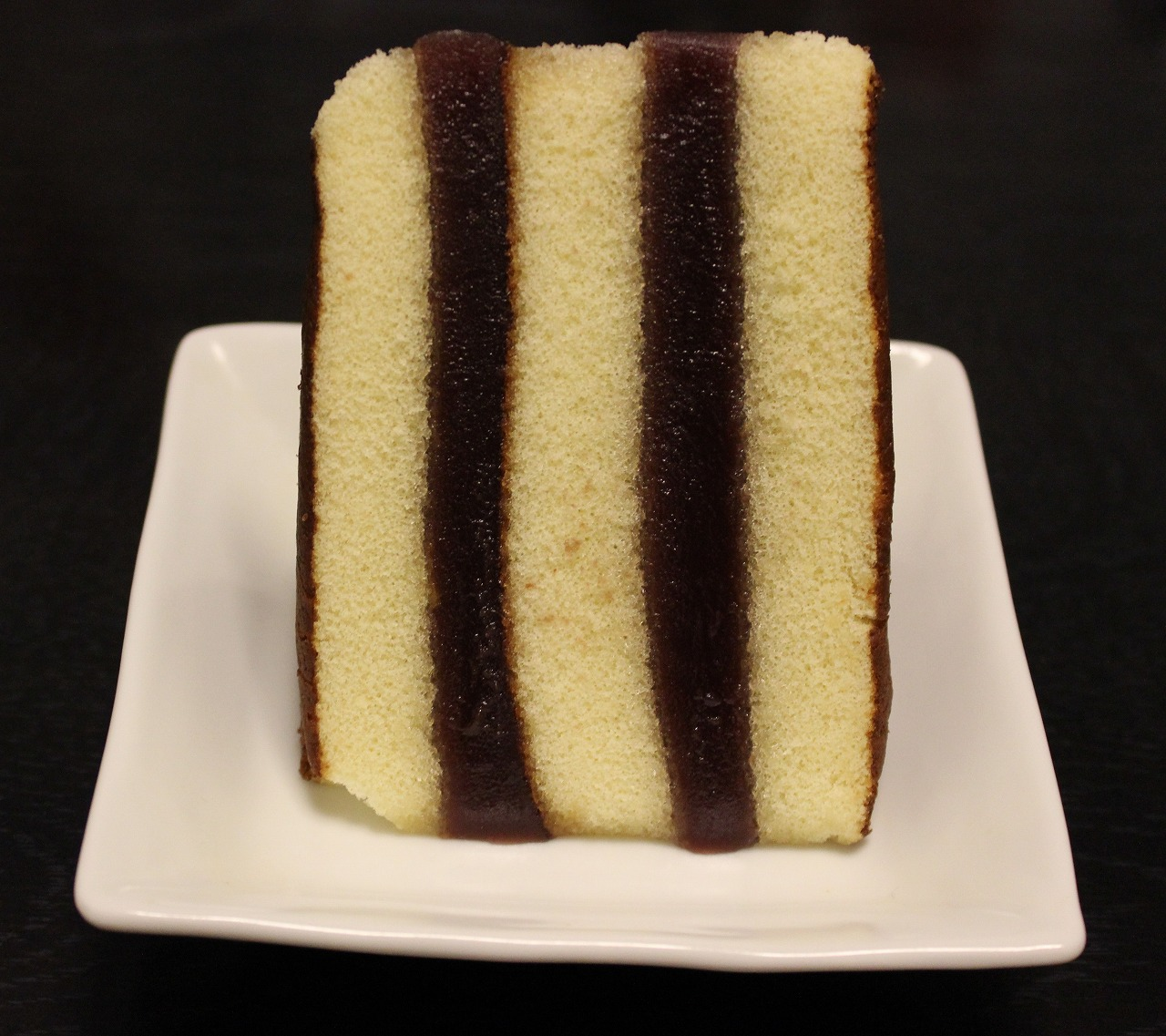 Siberia, Japanese sponge cake and yōkan sandwich.